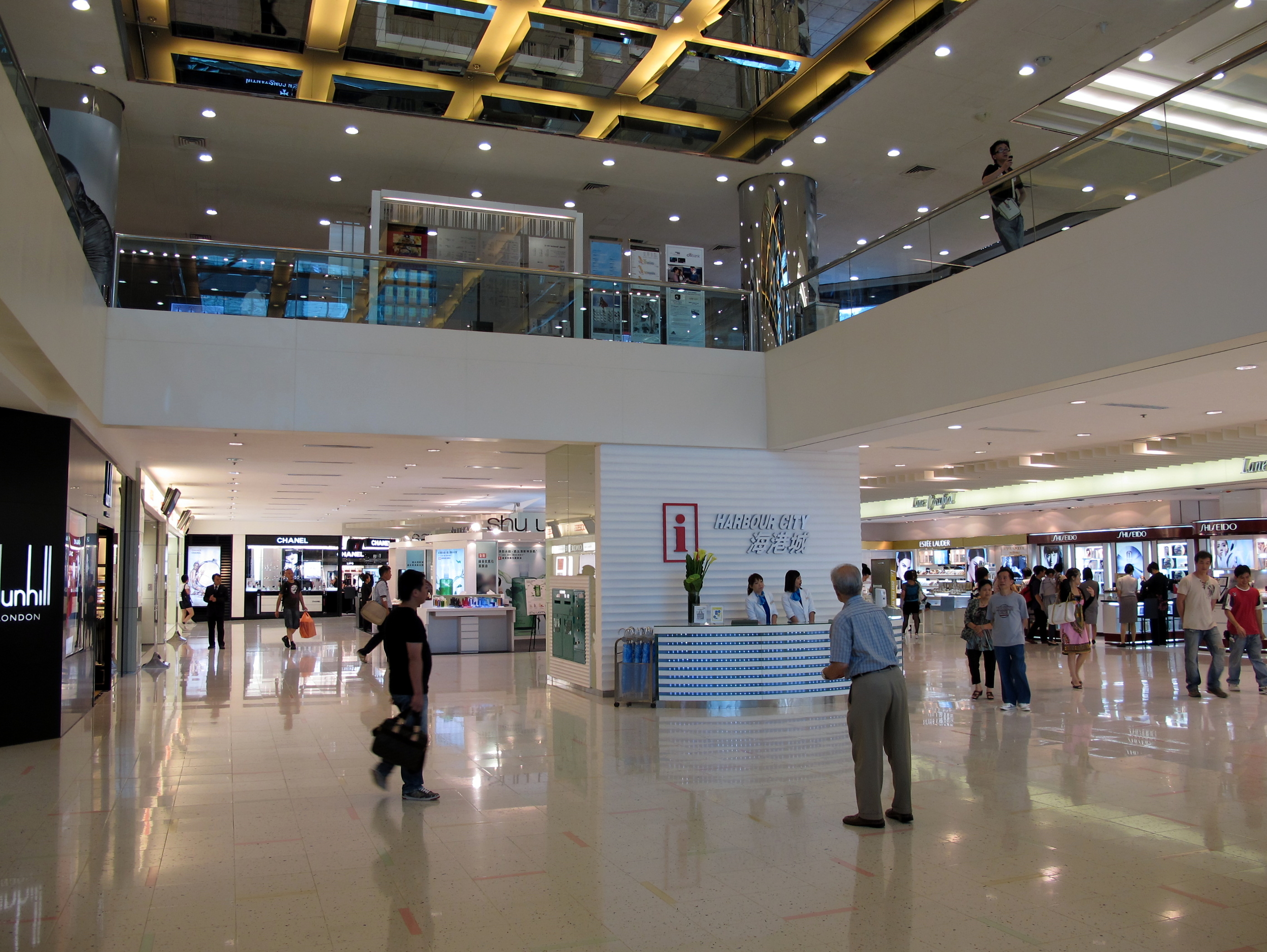 Ocean Terminal Enterance Void